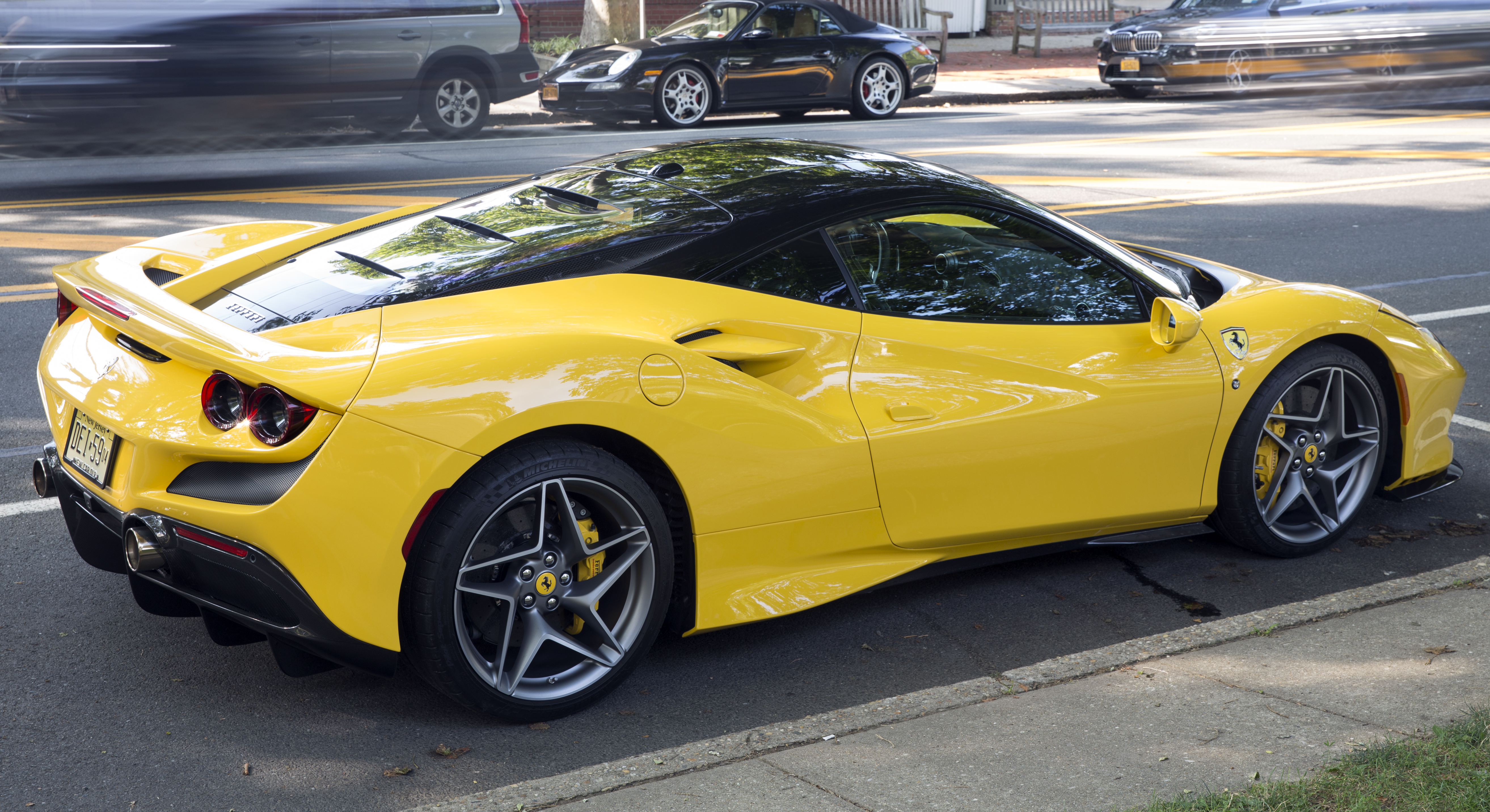 2020 Ferrari F8 Tributo, suggestively parked in Amagansett, NY.